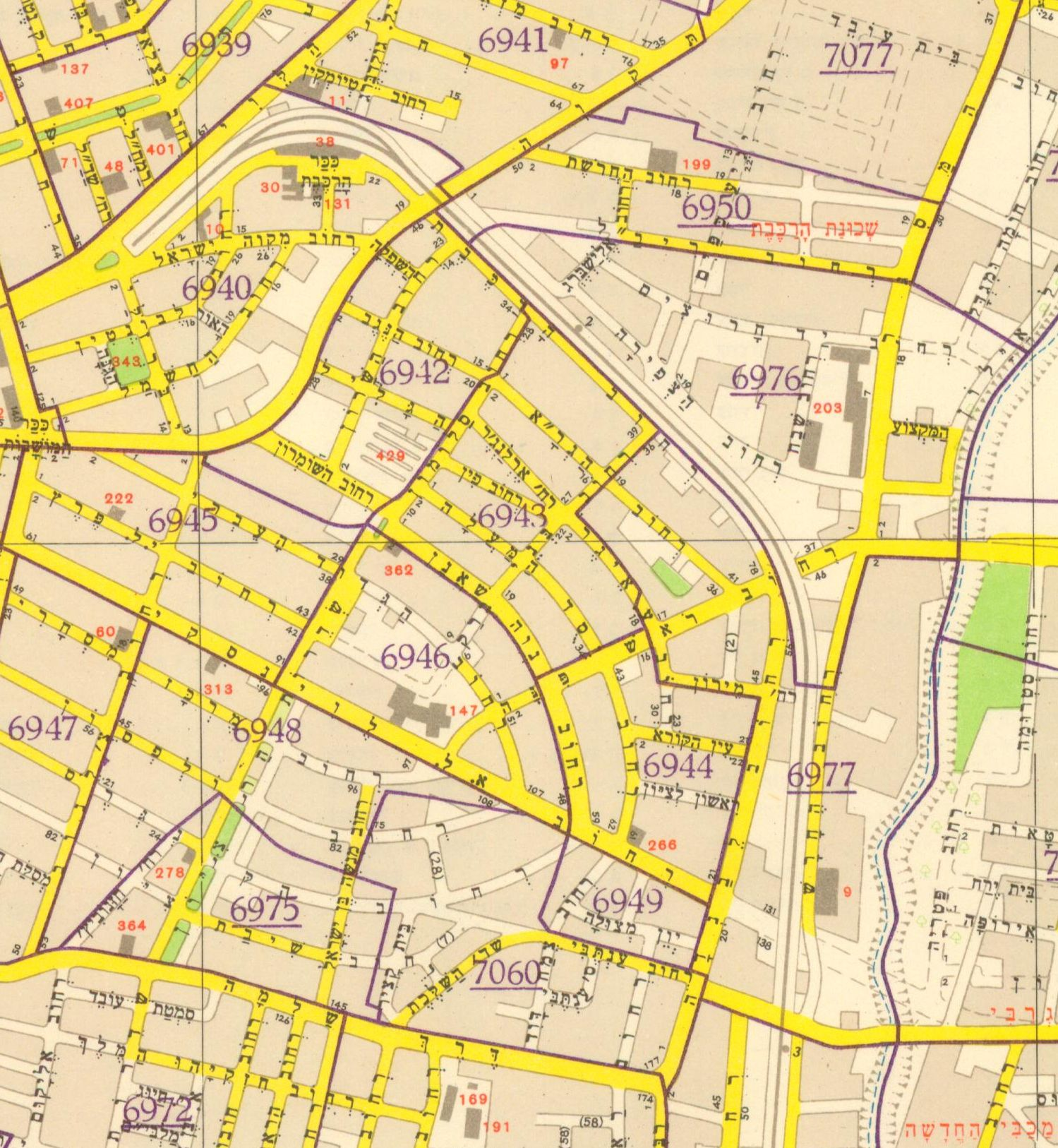 The original Tel Aviv South railway station before its relocation in 1970, as seen on a map from 1958